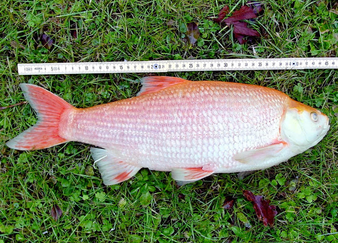 Goldorfe, 14 and 1/2 years old